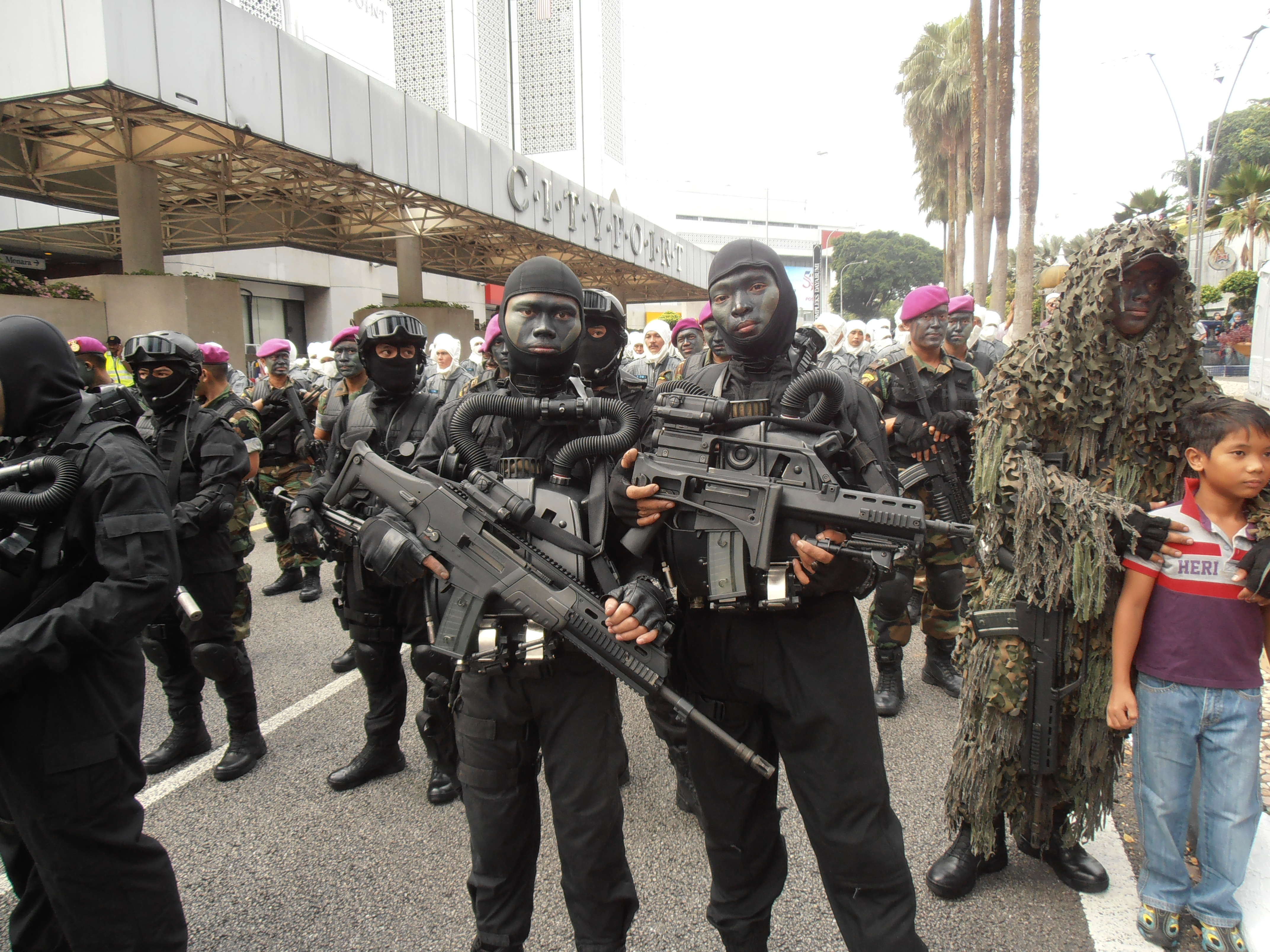 Two navy PASKAL frogman strike team members with the HK XM8 Automatic Rifle / Designated Marksmen and G36KE with bipod during the 57th National Day Parade of Malaysia at Merdeka Square, Kuala Lumpur. Formerly, the XM8 was the United States military designation for a lightweight assault rifle system and originally part of the Objective Individual Combat Weapon program (OICW) from the late 1990s to early 2000s before withdrawned on October 31, 2005. However, the weapon is now in service with Royal Malaysian Navy commando forces in year 2010.